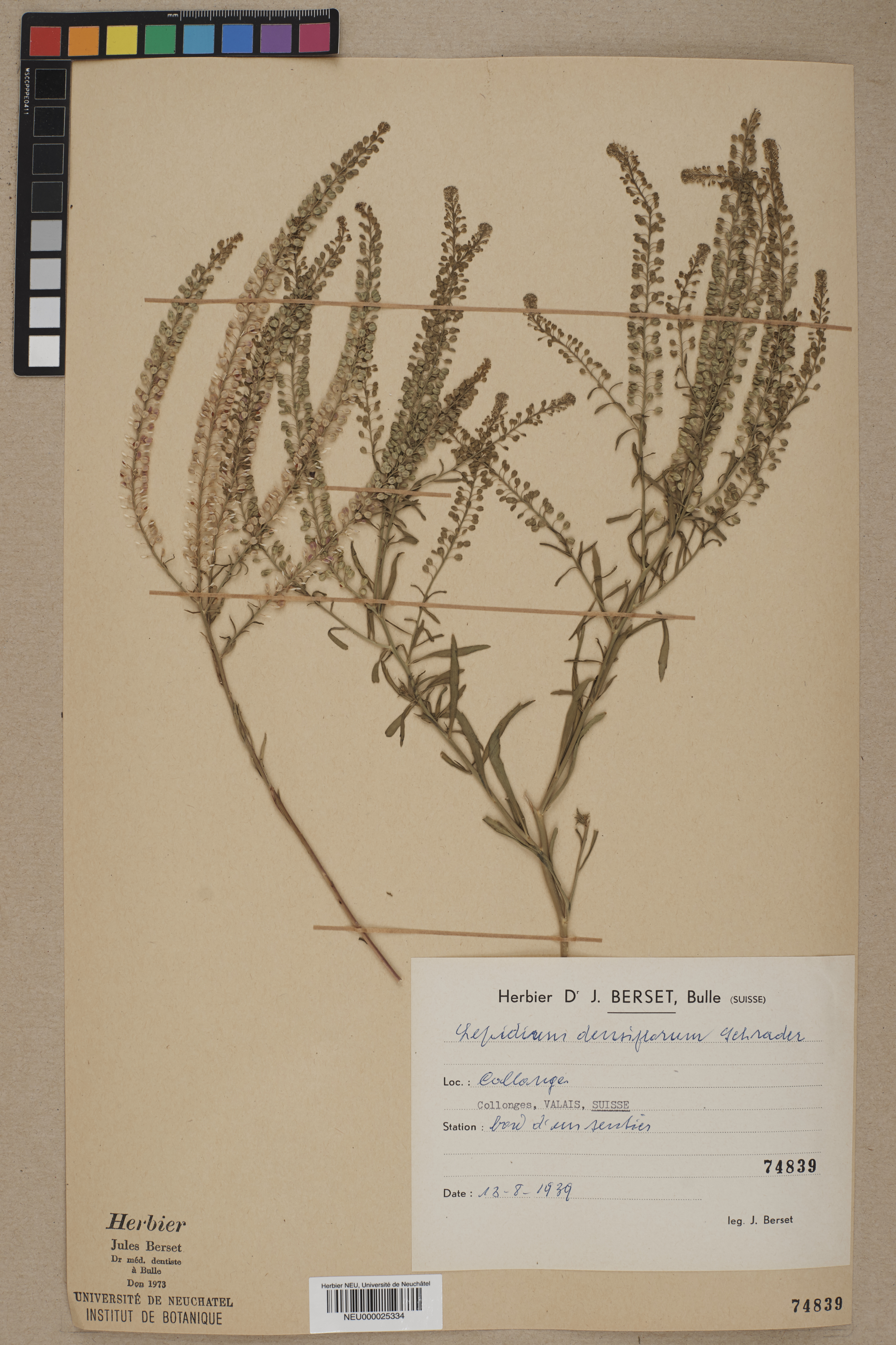 Dried pressed specimen of Lepidium densiflorum